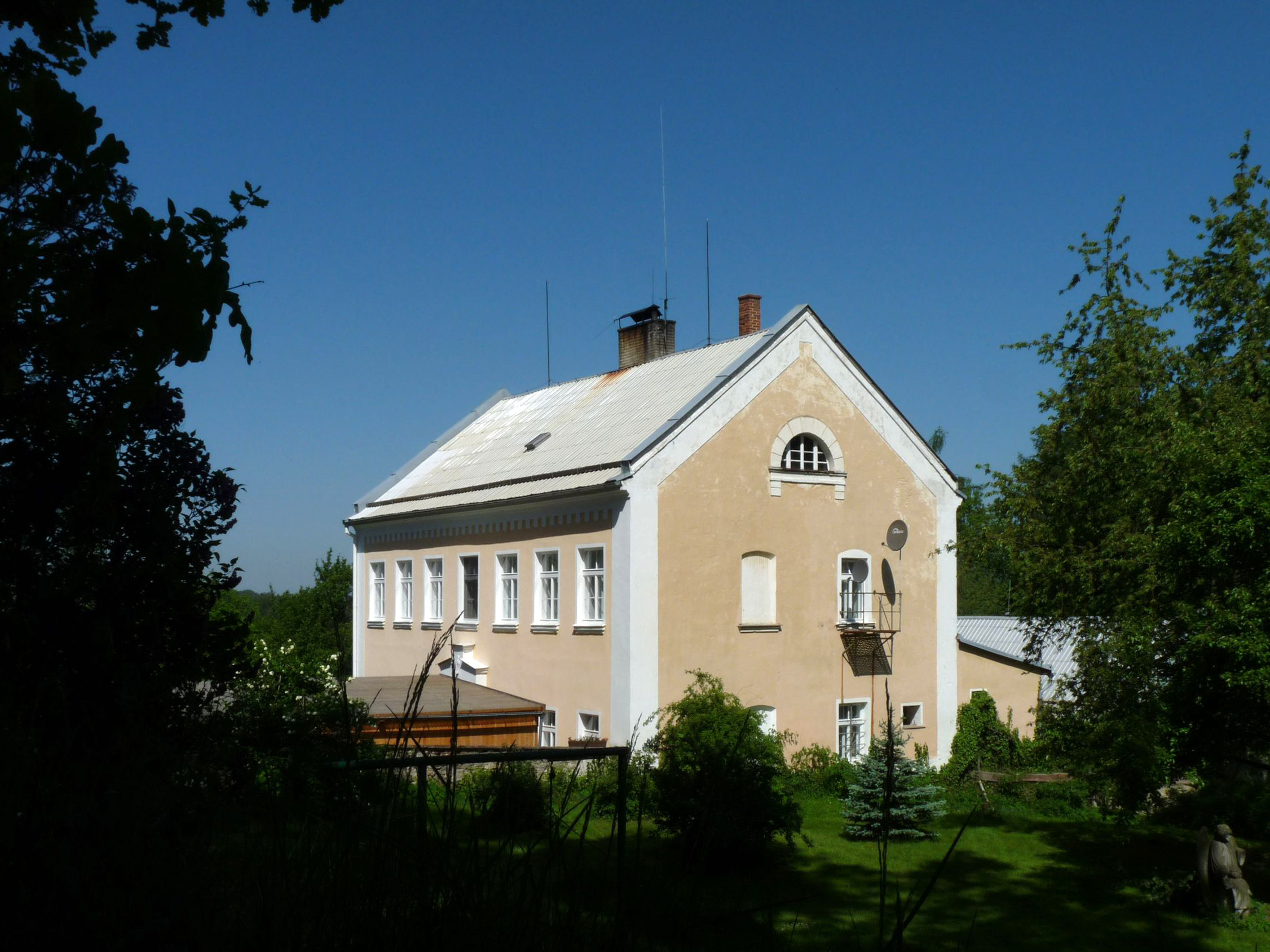 Former school in the village of Hroby, Tábor District, South Bohemian Region, Czech Republic, part of the municipality of Radenín.